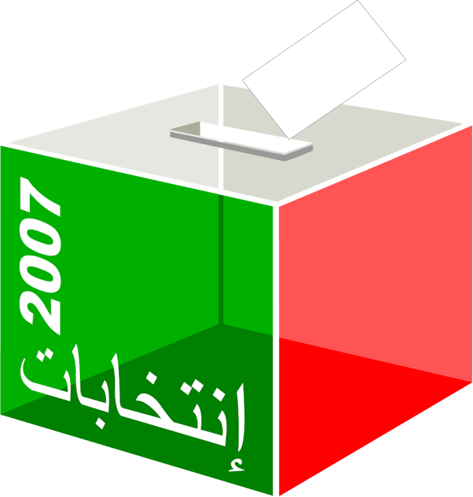 Elections in Morocco 2007